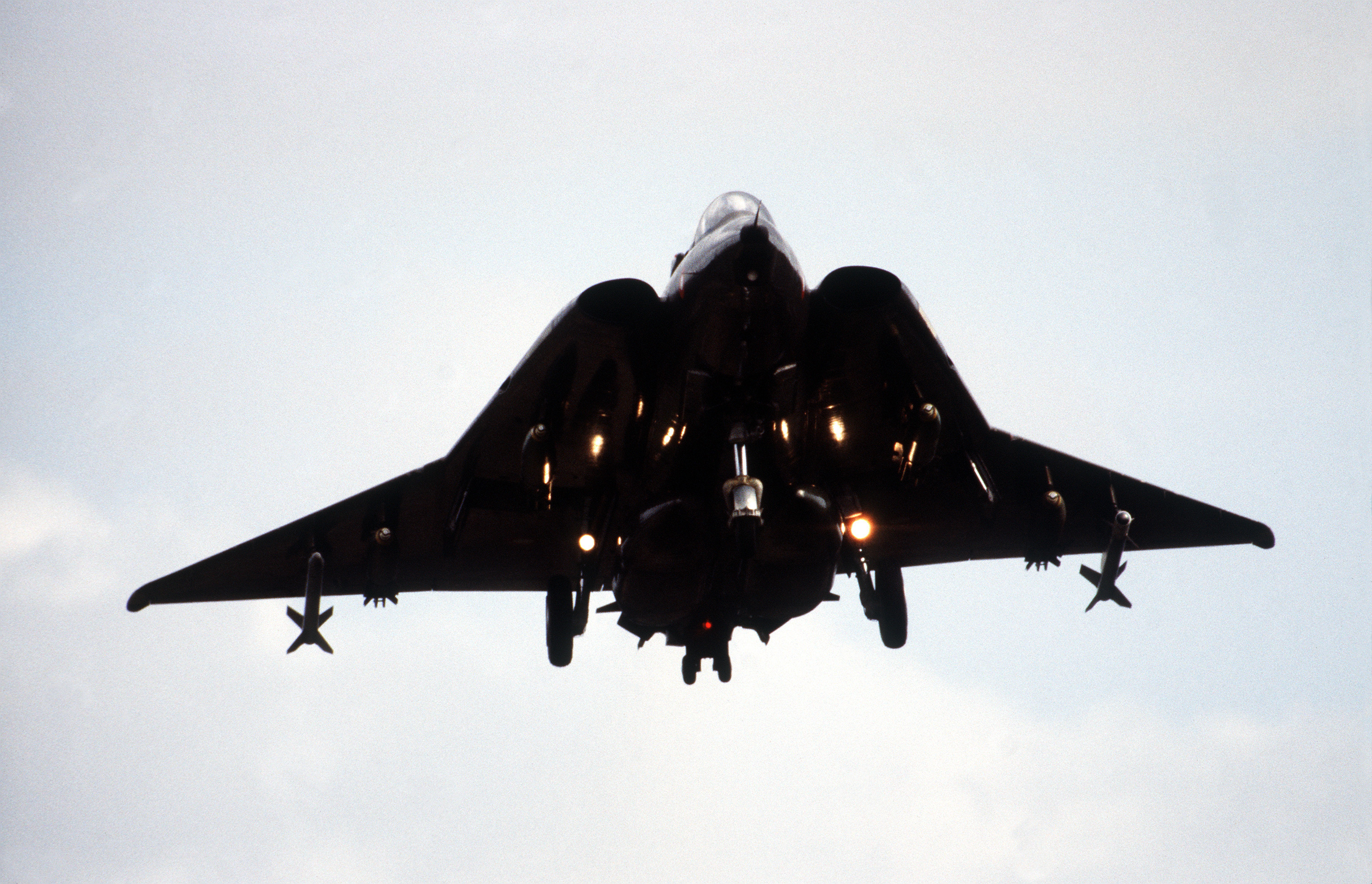 A Danish F-35 Draken aircraft of 729 Squadron comes in for a landing after a tactical air suport for maritime operations (TASMO) sortie during the NATO exercise Tactical Fighter Weaponry '89 at Karup Air Station.